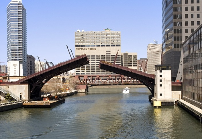 Randolph Street Bridge, in Chicago, Illinois, apparently under repair. In the background is the Lake Street Bridge.